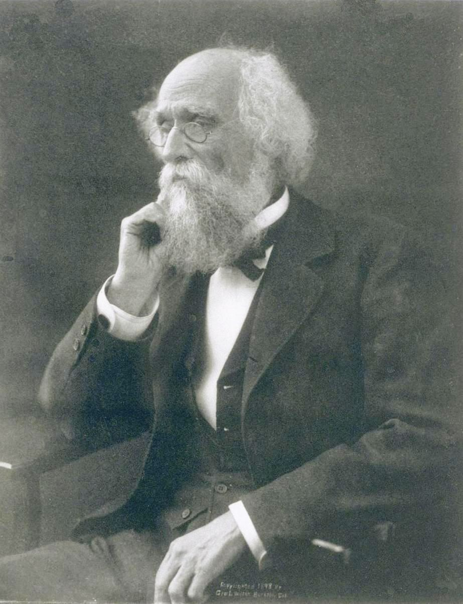 Joseph LeConte (1823-1901), American geologist and co-founder of the Sierra Club.